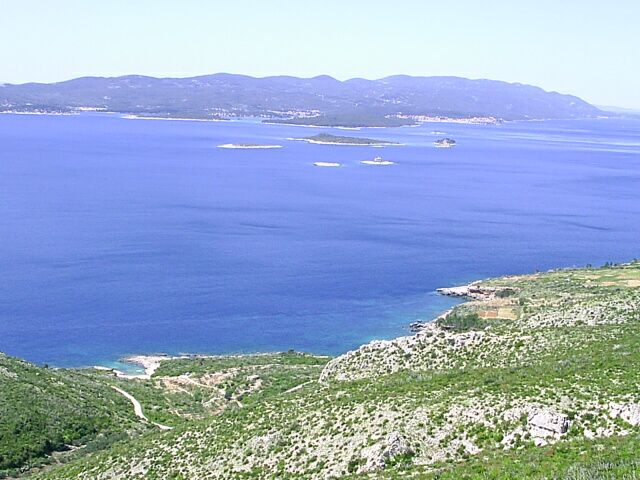 Pelješac channel in Croatia